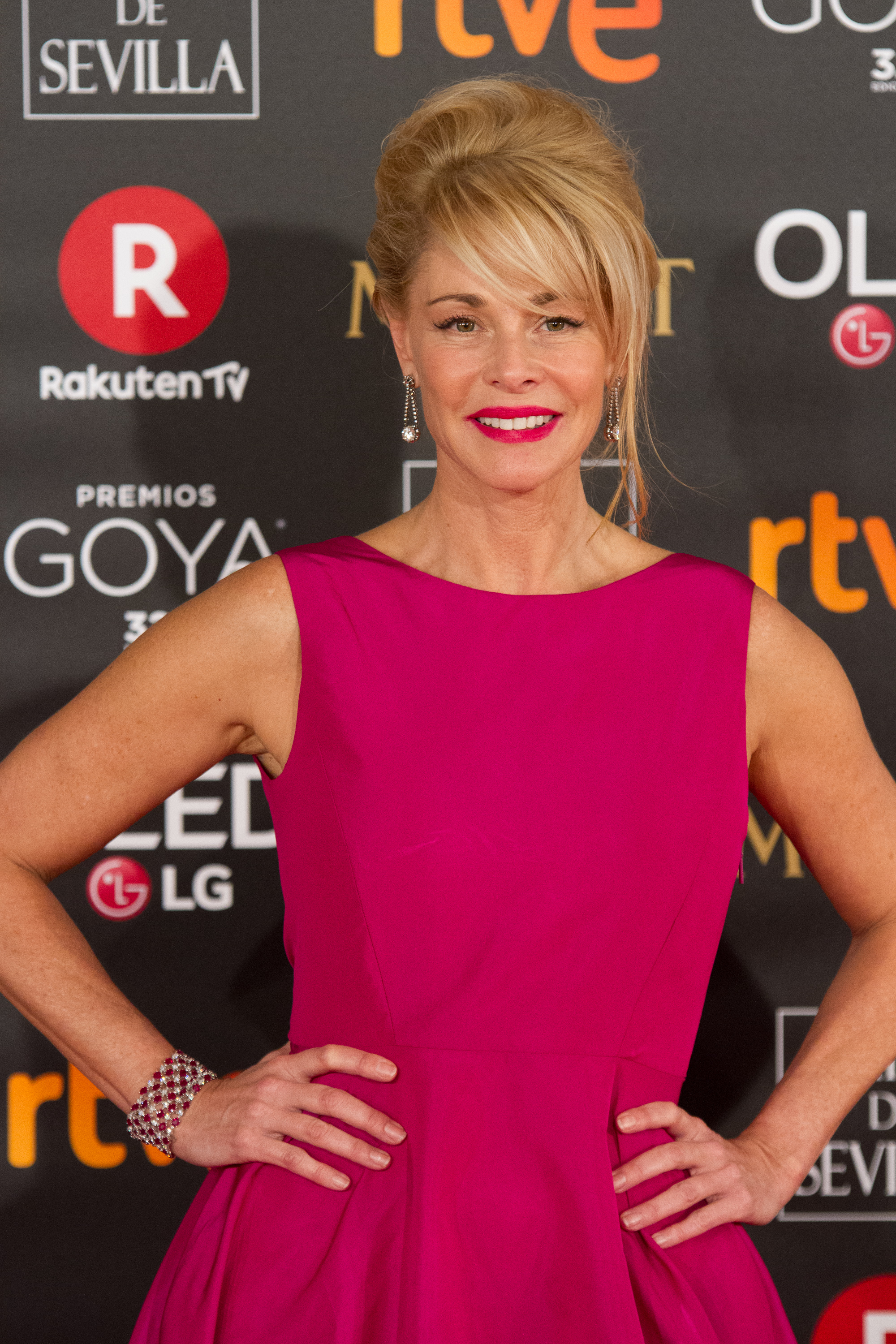 32nd Goya Awards, 2018.